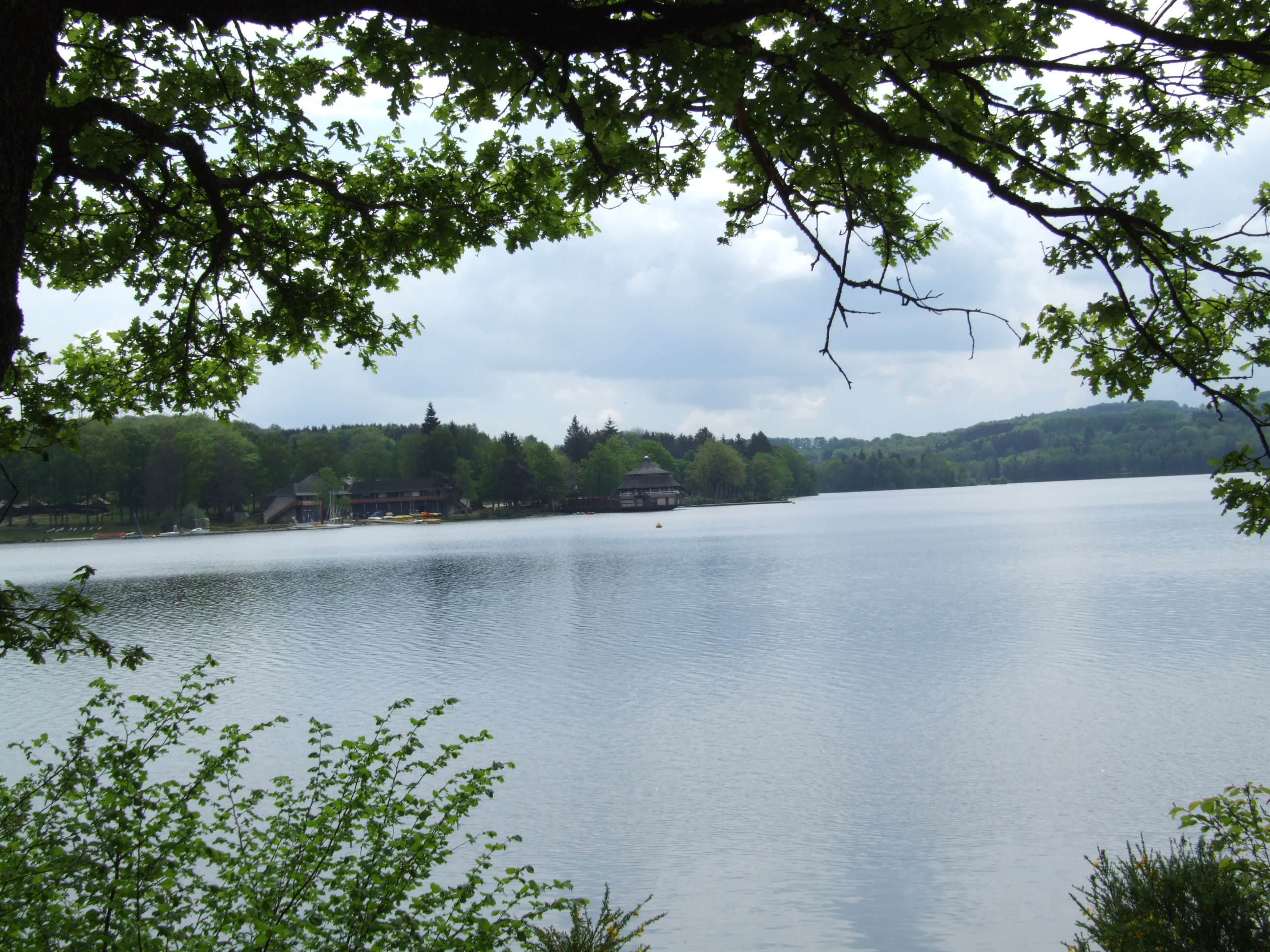 Setton lake, Burgundy, FRANCE